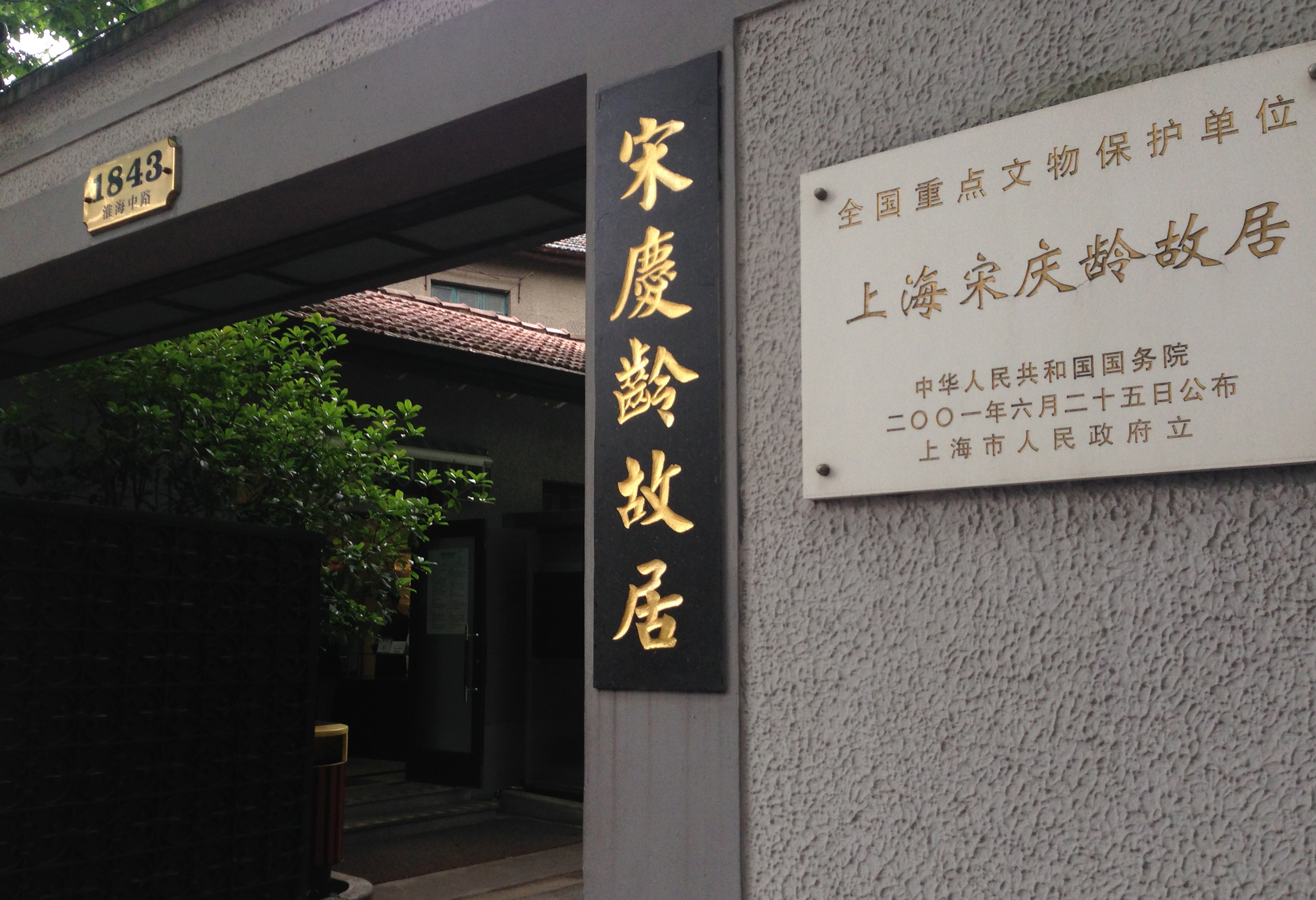 The main entrance of the Soong Ching-ling Memorial Residence in Shanghai.